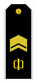 Rank insignia of the Russian Federation´s armed forces (1994-2010), here Sea war fleet (Navy) "Chief Petty Officer of the Ship” (OR8) – shoulder strap dress uniform.